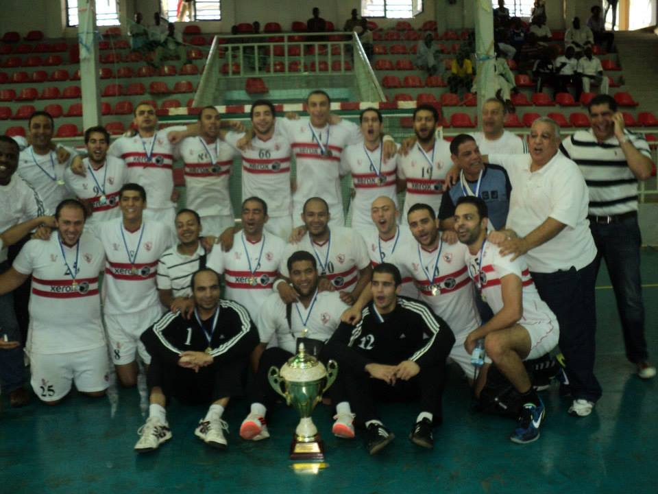 African Champions League 2011